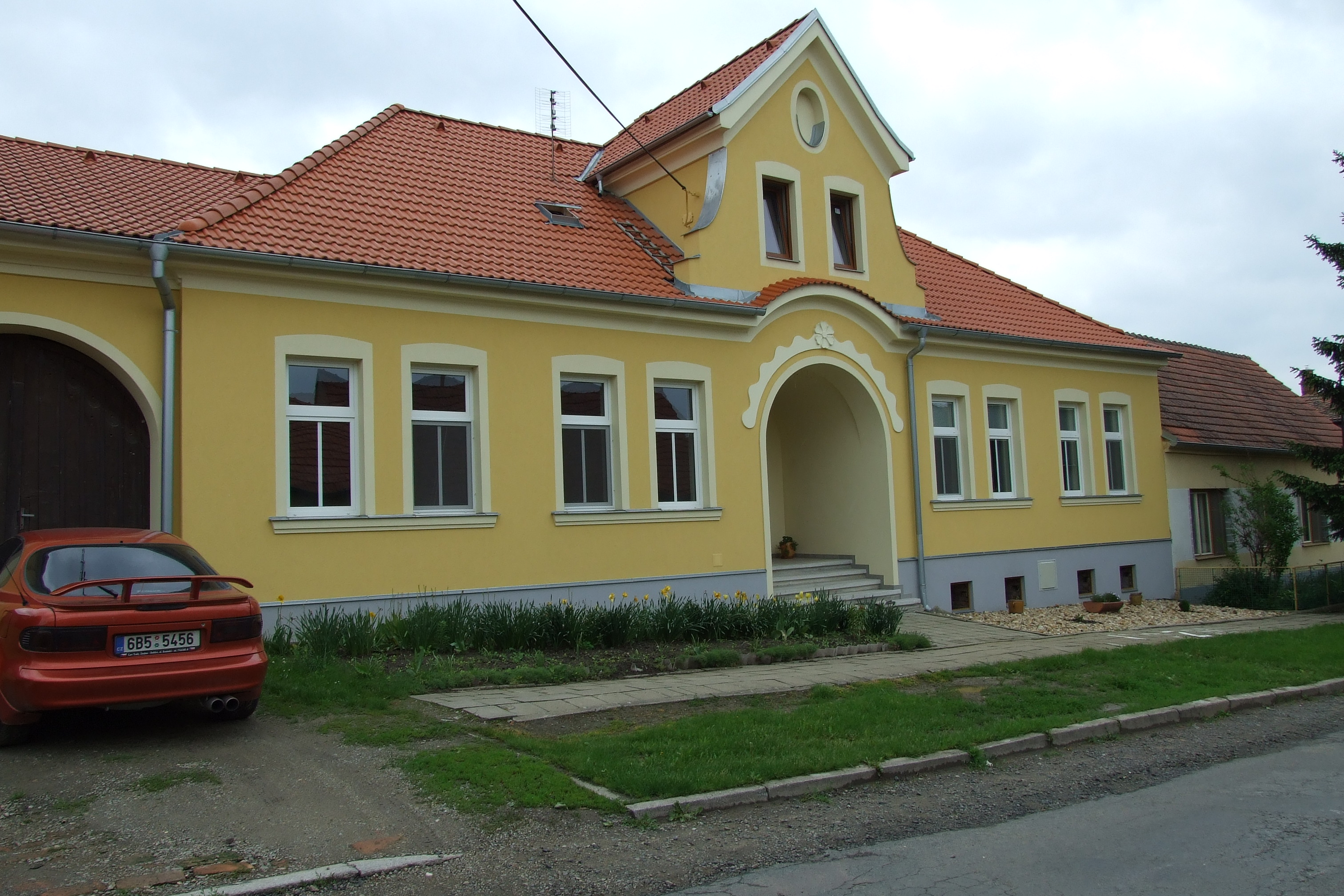 Parsonage in the village Suchohrdly u Miroslavi.